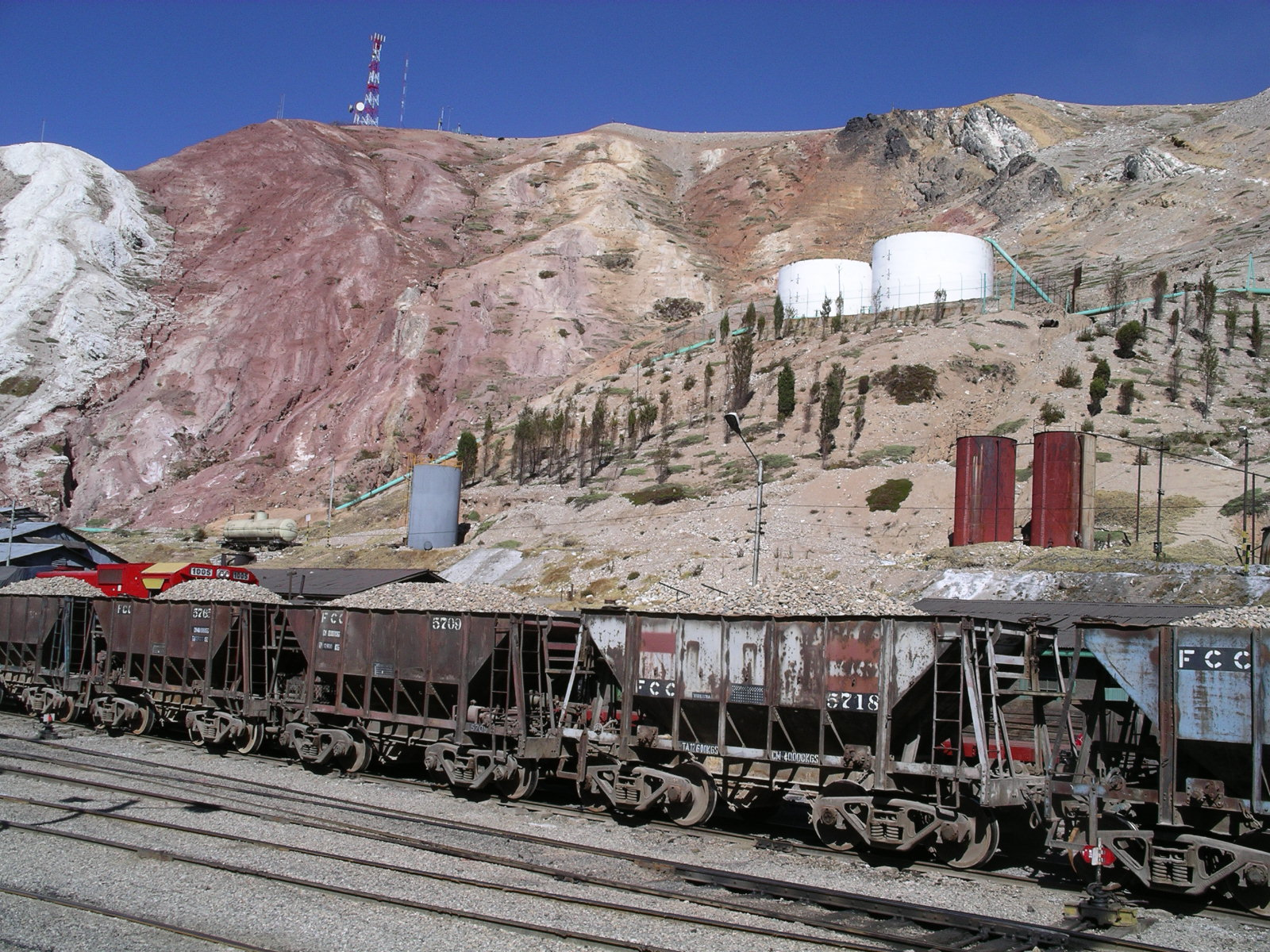 Railway Station of the peruvian mining city of La Oroya.